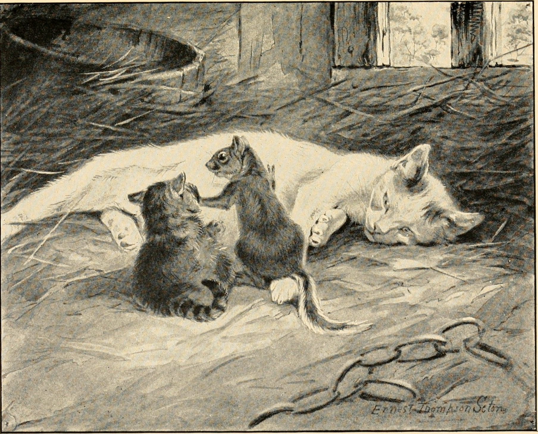 Title: Bannertail; the story of a gray squirrel Year: 1922 (1920s) Authors: Seton, Ernest Thompson, 1860-1946 Subjects: Squirrels Publisher: New York : C. Scribner's sons Text Appearing Before Image: Bannertail for the lively, long-tailed Foundling. Sodid others of importance, men and womenfolk of the farmhouse, and neighborstoo. The frisky Graycoat grew up amidexperiences foreign to his tastes, and of akind unknown to his race. The Kitten too grew up, and in mid-summer was carried off to a distant farm-house to be their cat. Now the Squirrel was over half-grown,and his tail was broadening out into agreat banner of buff with silver tips.His life was with the old Cat; his foodwas partly from her dish. But manythings there were to eat that delightedhim, and that pleased her not. Therewas corn in the barn, and chicken-feedin the yard, and fruit in the garden.Well-fed and protected, he grew big andhandsome, bigger and handsomer thanhis wild brothers, so the house-folk said.But of that he knew nothing; he had never (12) Text Appearing After Image: The Story of a Gra^squirrel seen his own people. The memory of hismother had faded out. So far as heknew, he was only a bushy-tailed Cat.But inside was an inheritance of instincts,as well as of blood and bone, that wouldsurely take control and send him herding,if they happened near, with those andthose alone of the blowsy silver tails. (13) THE RED HORROR